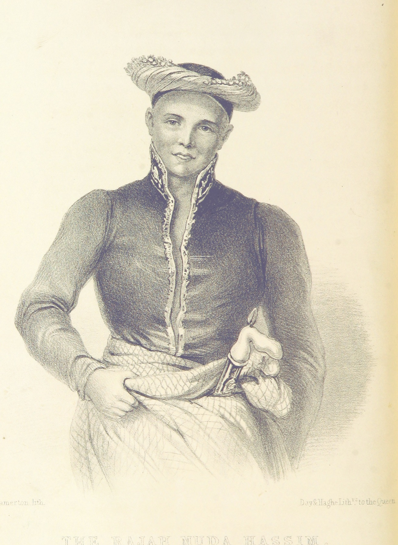 Portrait of Pangeran Raja Muda Hashim